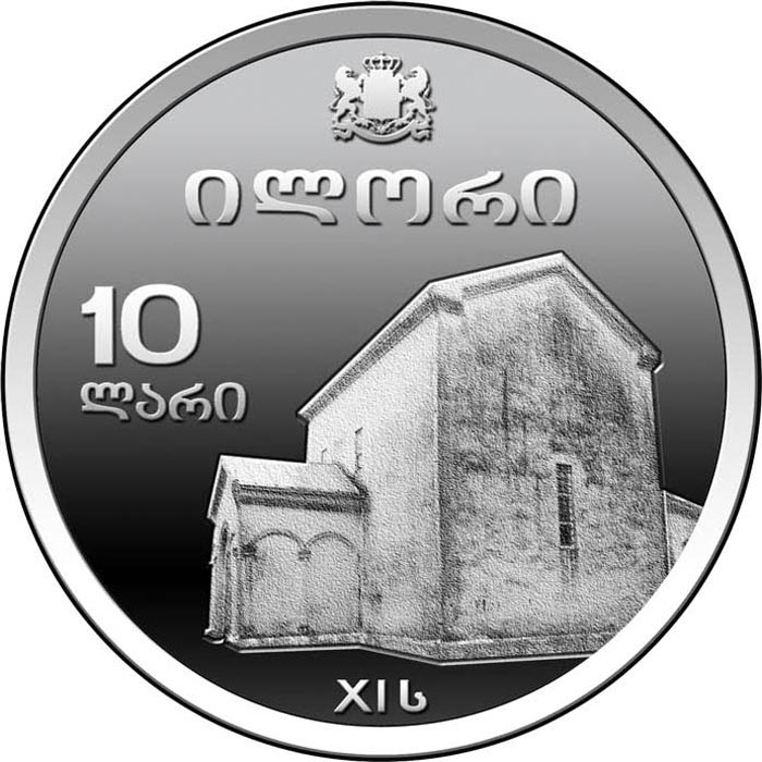 Commemorative 10 GEL silver coin issued in 2009. Reverse: Ilori church of St. George built in the 11th century